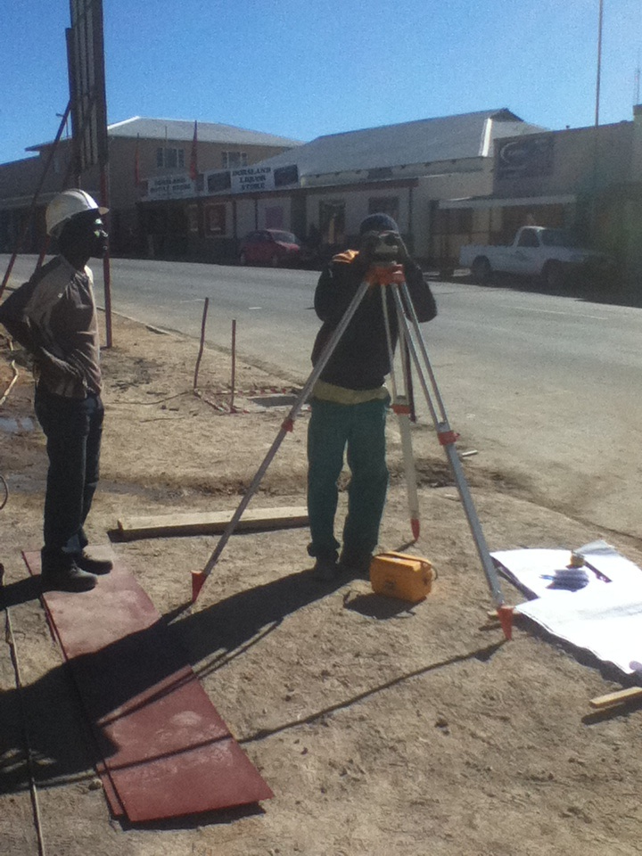 Powering the nation is my priority. A NamPower employee at work; Namibia.